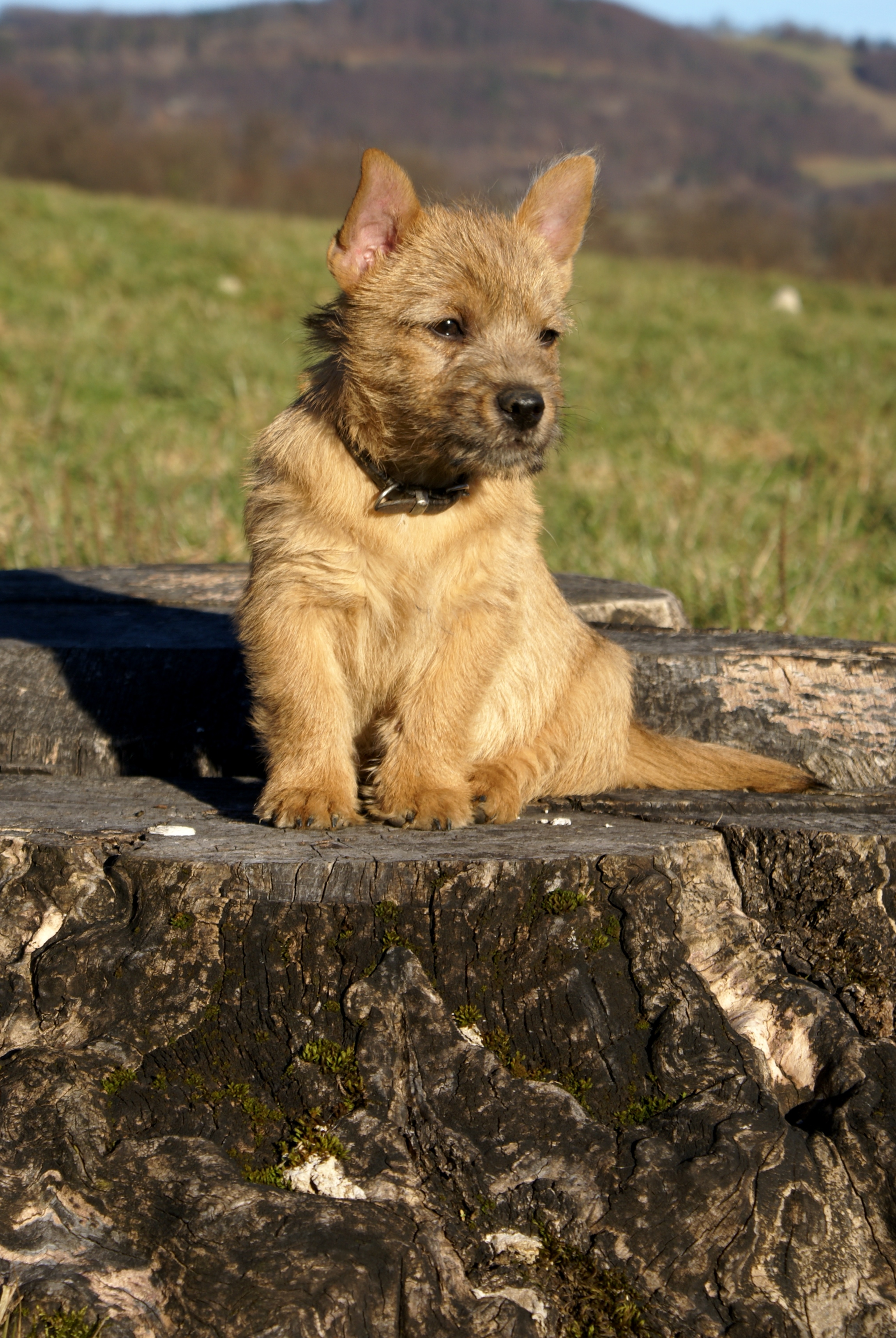 Norwich Terrier Puppy of Red Color